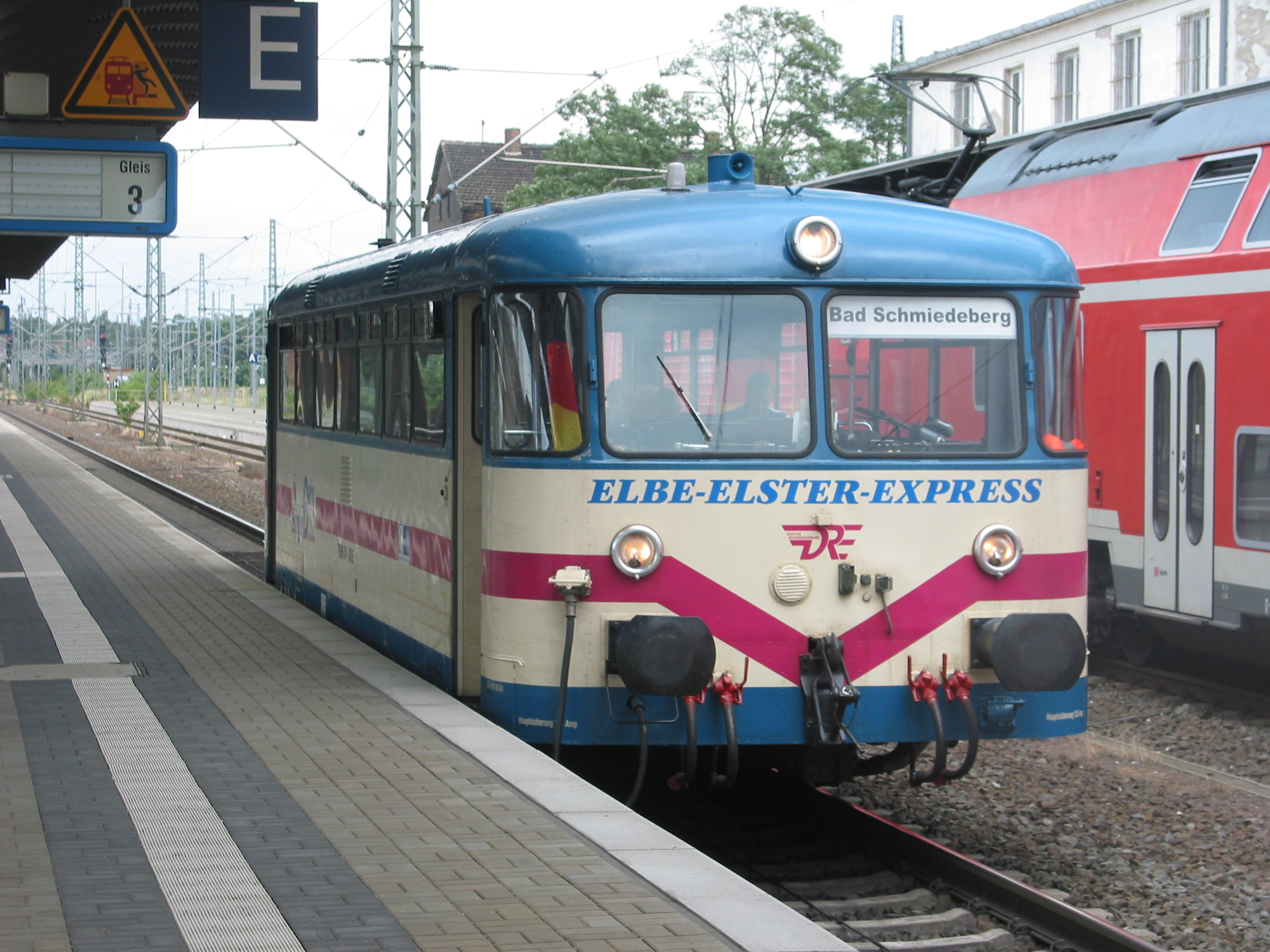 DRE railcar 798-01 in Lutherstadt Wittenberg